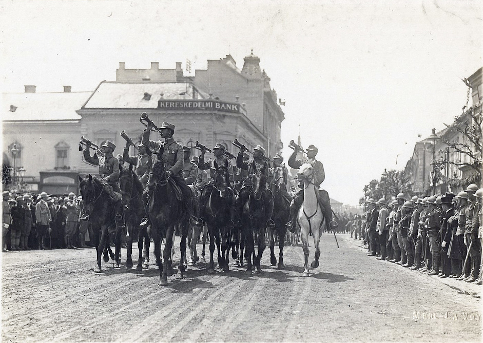 Romanian troops (Regiment 16 Dorobanți "Fălticeni") marching in Cluj, Transylvania, 1918. Photographer: Merl LaVoy.